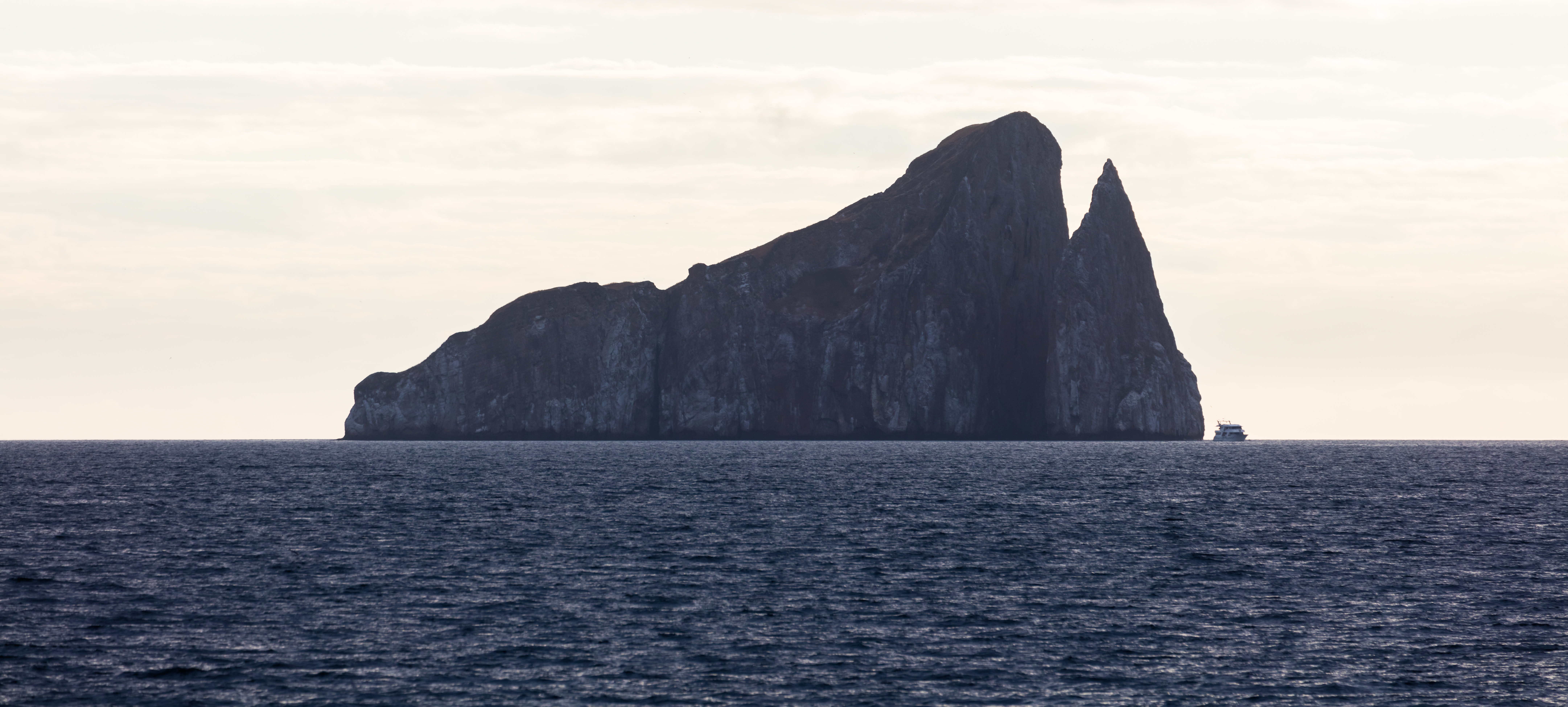 Sunrise in San Cristobal island, Galapagos islands, Ecuador